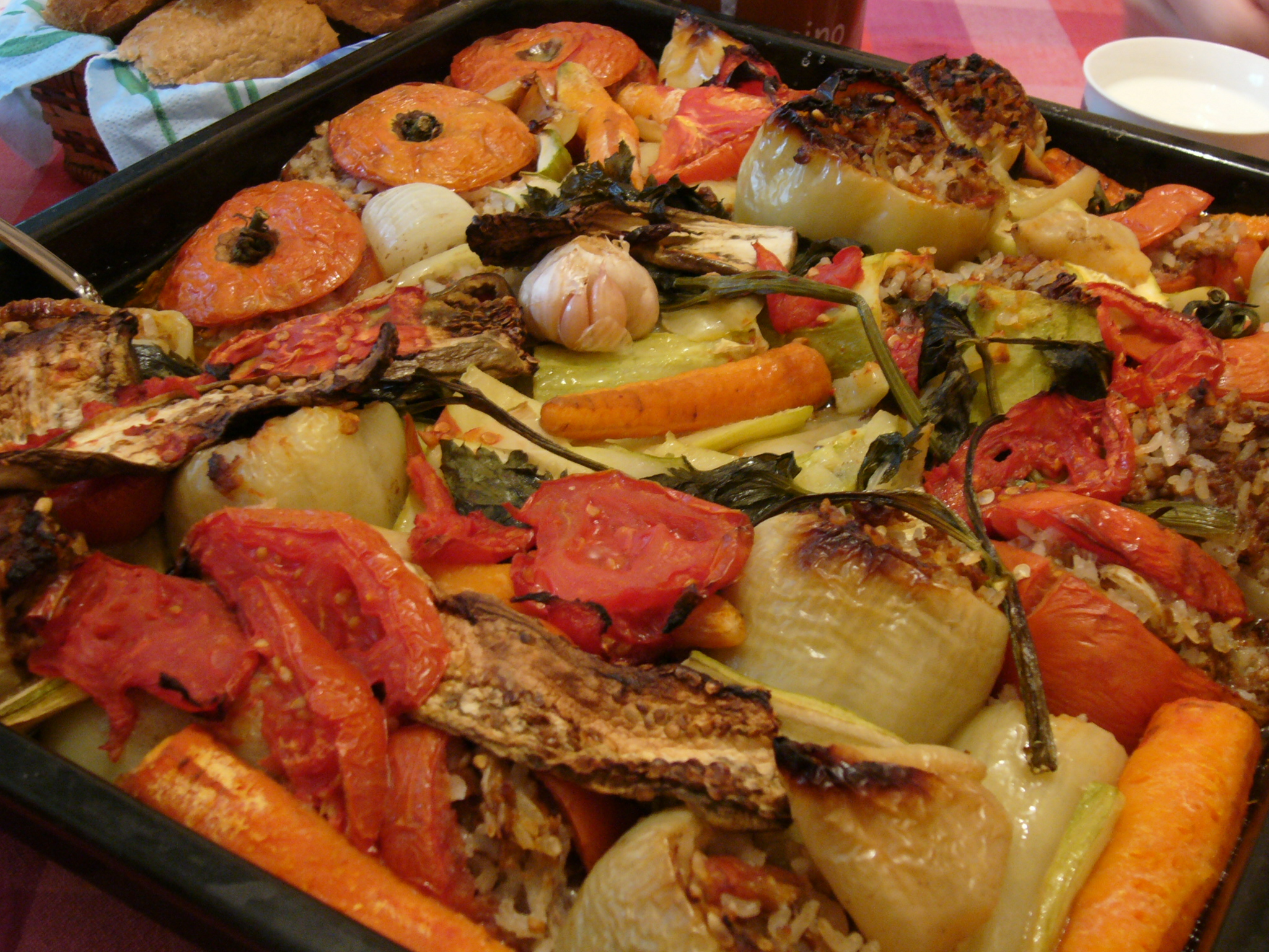 Stuffed paprika on Herzegovina way